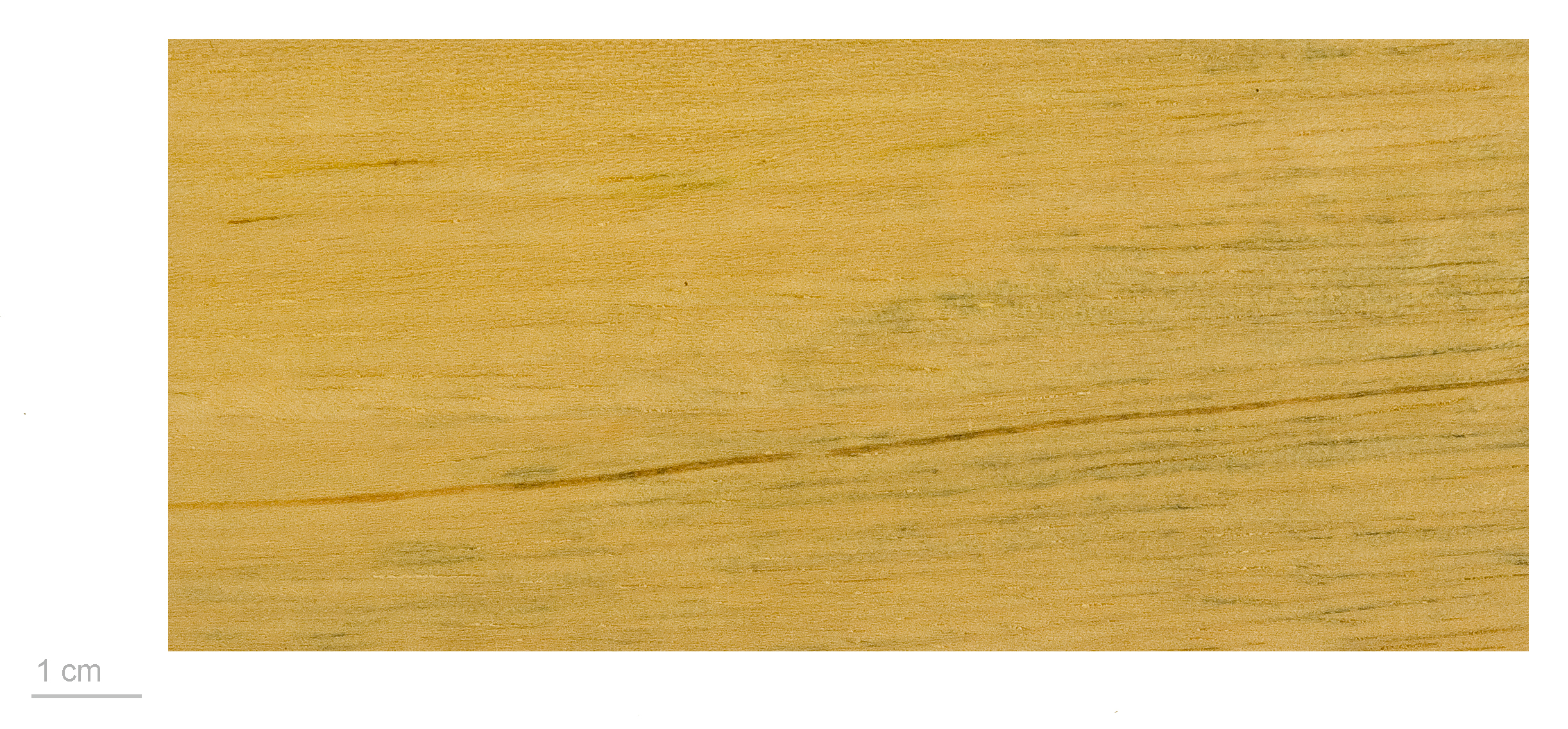 ? , wood